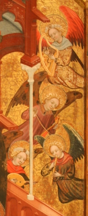 Detail from "Virgin feeding the Child" by Ramon de Mur. ca.1413-1423. Angels playing harp, rebec, lute and recorder.